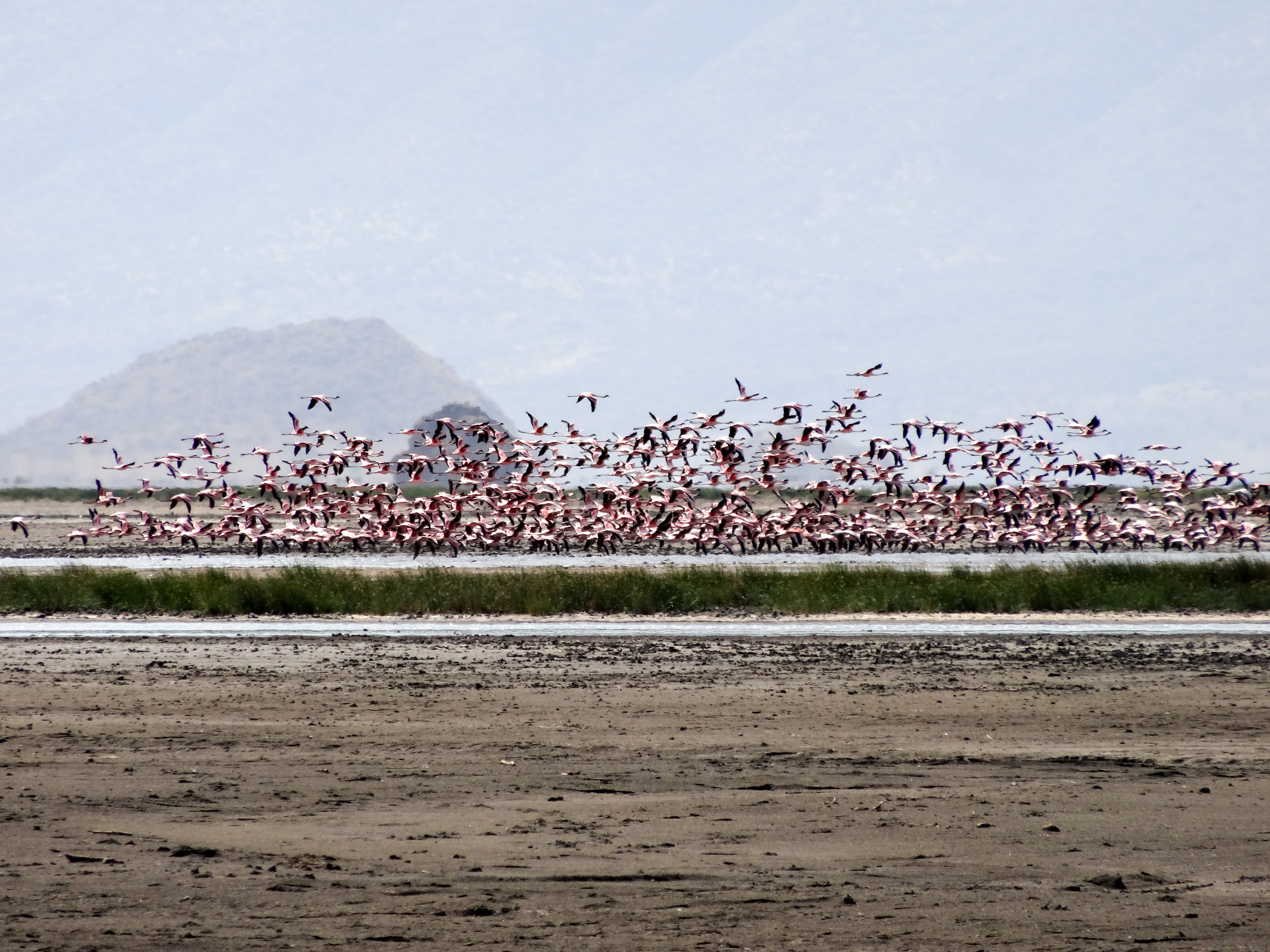 Flamingos over Natron